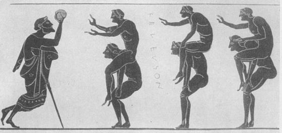 '209. A BALL GAME. Attic b.-f. lekythos. About 500 B. C. Oxford, Ashmolean Museum, 260. A bearded man prepares to throw a rather large ball. Three youths mounted pick-a-back are ready to catch it. Between two of them is inscribed κ λευσον, ‘Give the order’, the application of which is not clear. A similar scene occurs on a b.-f. amphora in the B.M. 182, where the man throwing the ball is seated. On the B.M. krater E. 467 satyrs are depicted playing the same game. See P. Gardner, Gk. Vases in the Ashmolean, 260' Gardiner, E. Norman, 'Athletics of the Ancient World', Oxford: OUP, 1967, illustration 209 / facing p. 230